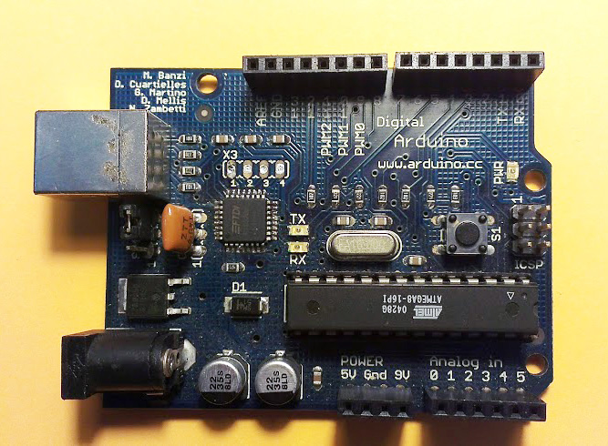 first arduino board, late 2005